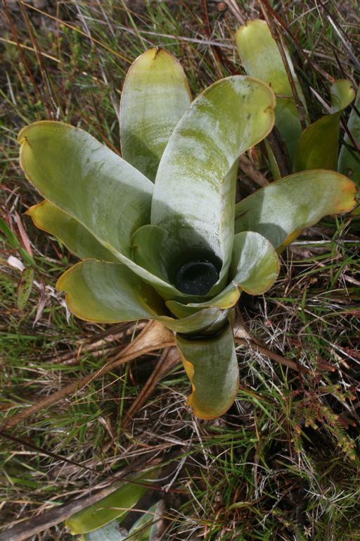 Brocchinia reducta of mount Roraima, Venezuela